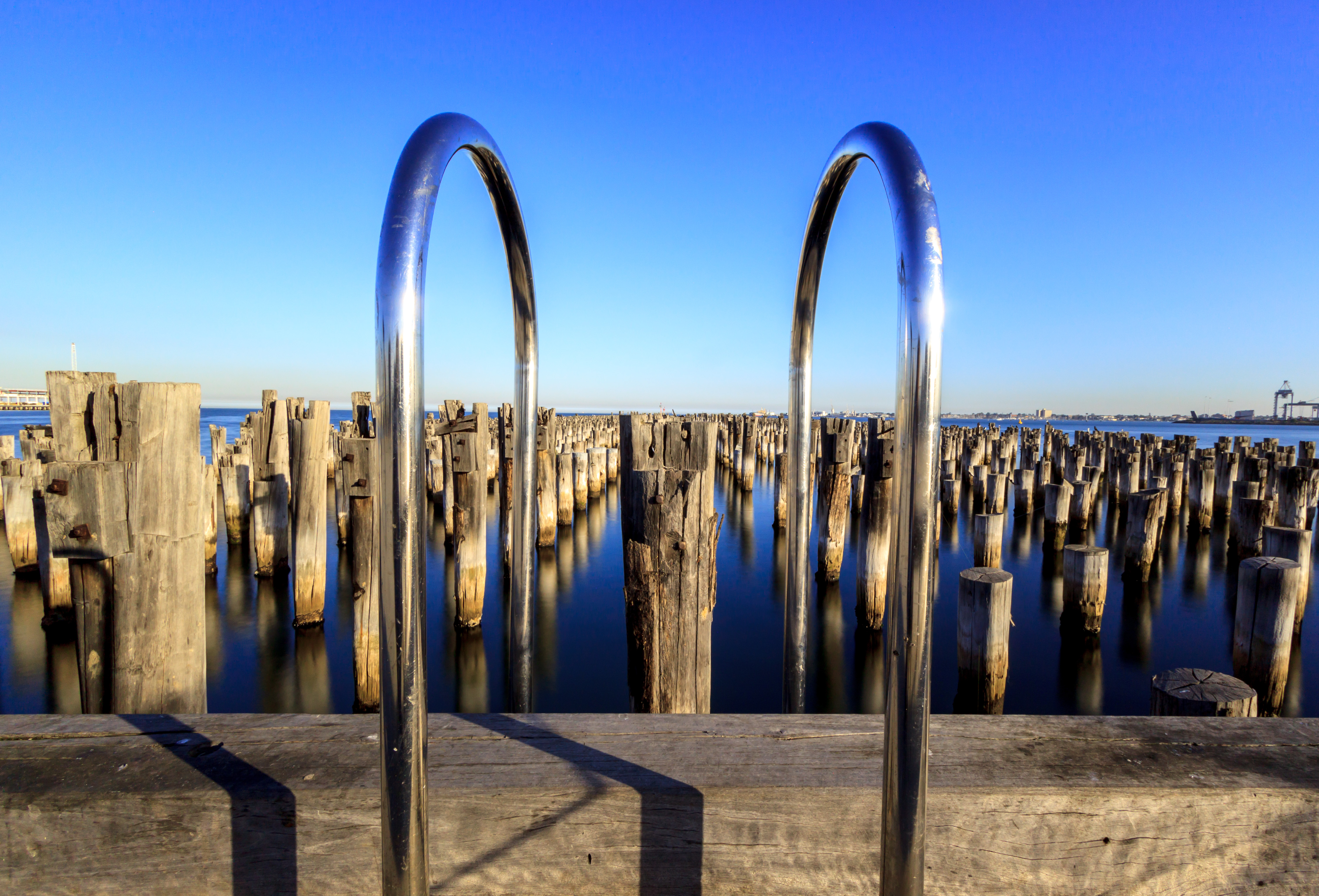 Princes Pier is a 580 metre long historic pier on Port Phillip, in Port Melbourne, Victoria, Australia. The pier was constructed between 1912 and 1915. From completion in 1915 until 1969 it was also a major arrival point for new migrants, particularly during the post-war period. In addition to a pier, there was a gatehouse and barriers, terminal building, amenities rooms, goods lockers, ablution blocks, railway sidings and passenger gangways. Victorian Heritage Register VHR H0981 H7822-0573